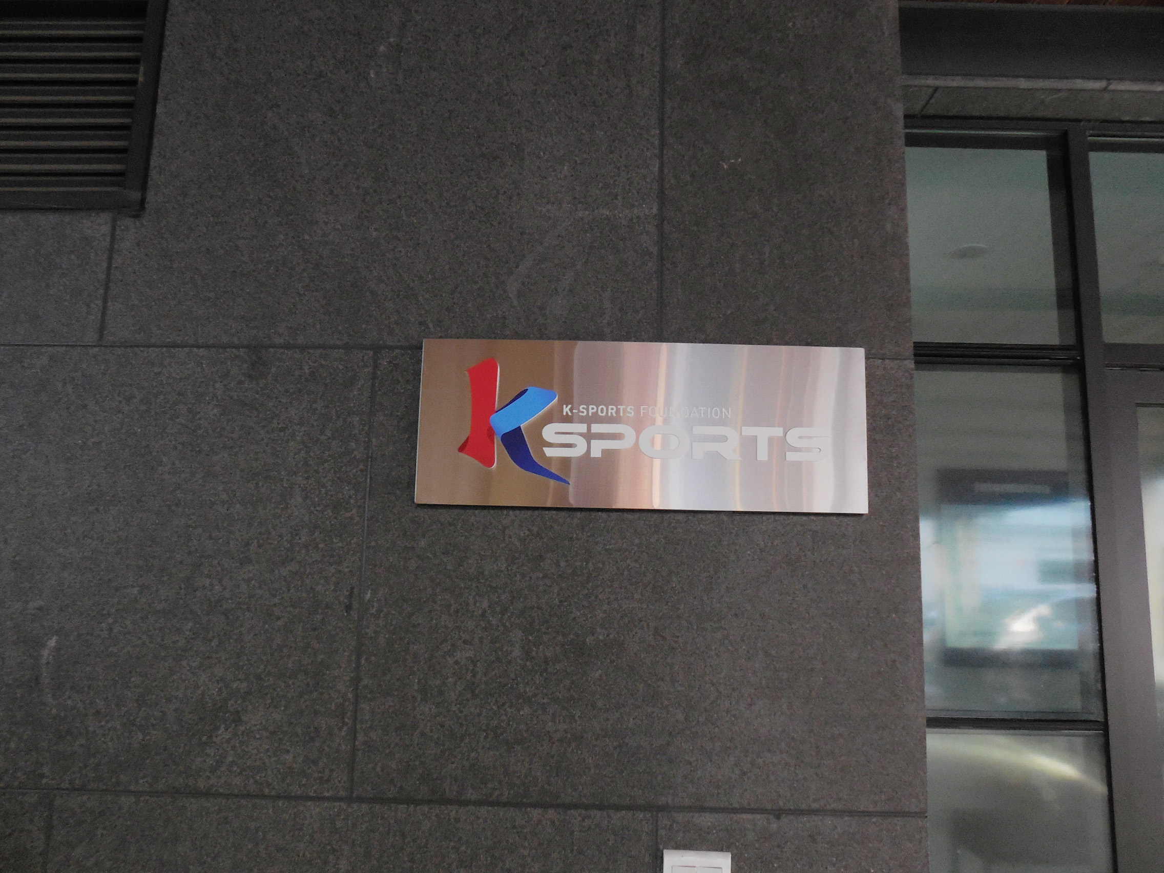 Logo of K-SPORTS Foundation